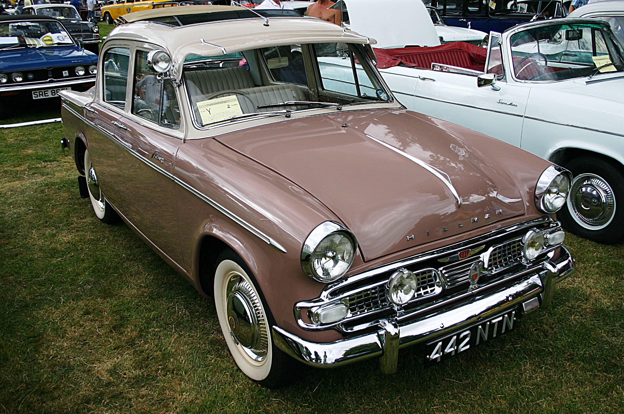 The new grille shows this to be the Series IIIA Hillman Minx, but look at that shiny chrome as this gives away the fact that this is NOT Series IIIB Minx.